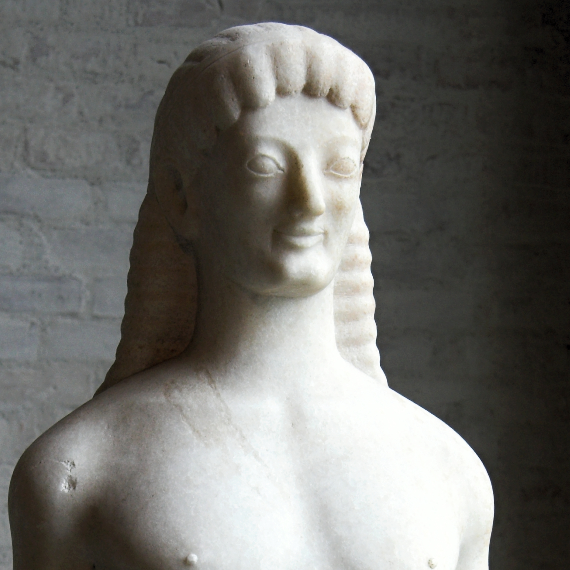 Kouros of Tenea, marble, 560-550 BC. Found in the cemetery of the ancient city Tene (near Athikion, between Corinth and Mycenae) in the Peloponnese. Glyptothek Munich, Inv. N. 168.